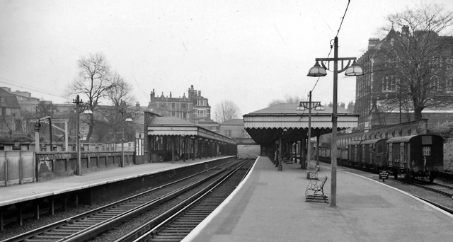 Blackheath Station. View eastward, towards Dartford via Woolwich or via Bexleyheath.